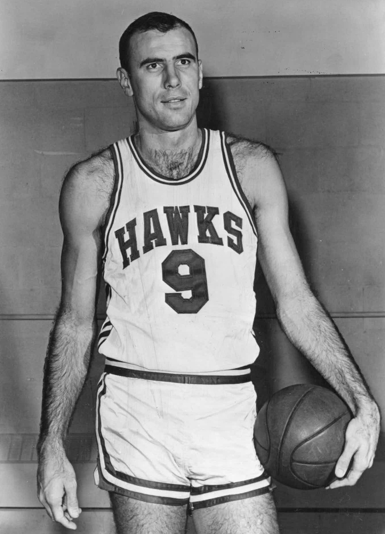 Professional basketball player Bob Pettit